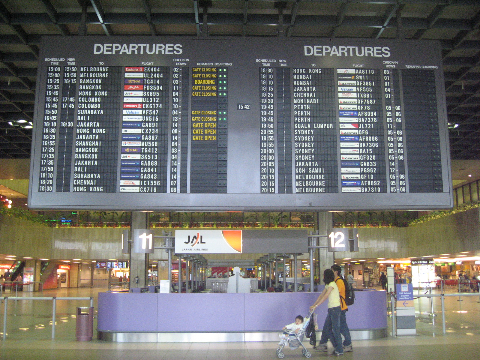 Singapore Changi Airport, Terminal 1, Departure Hall.